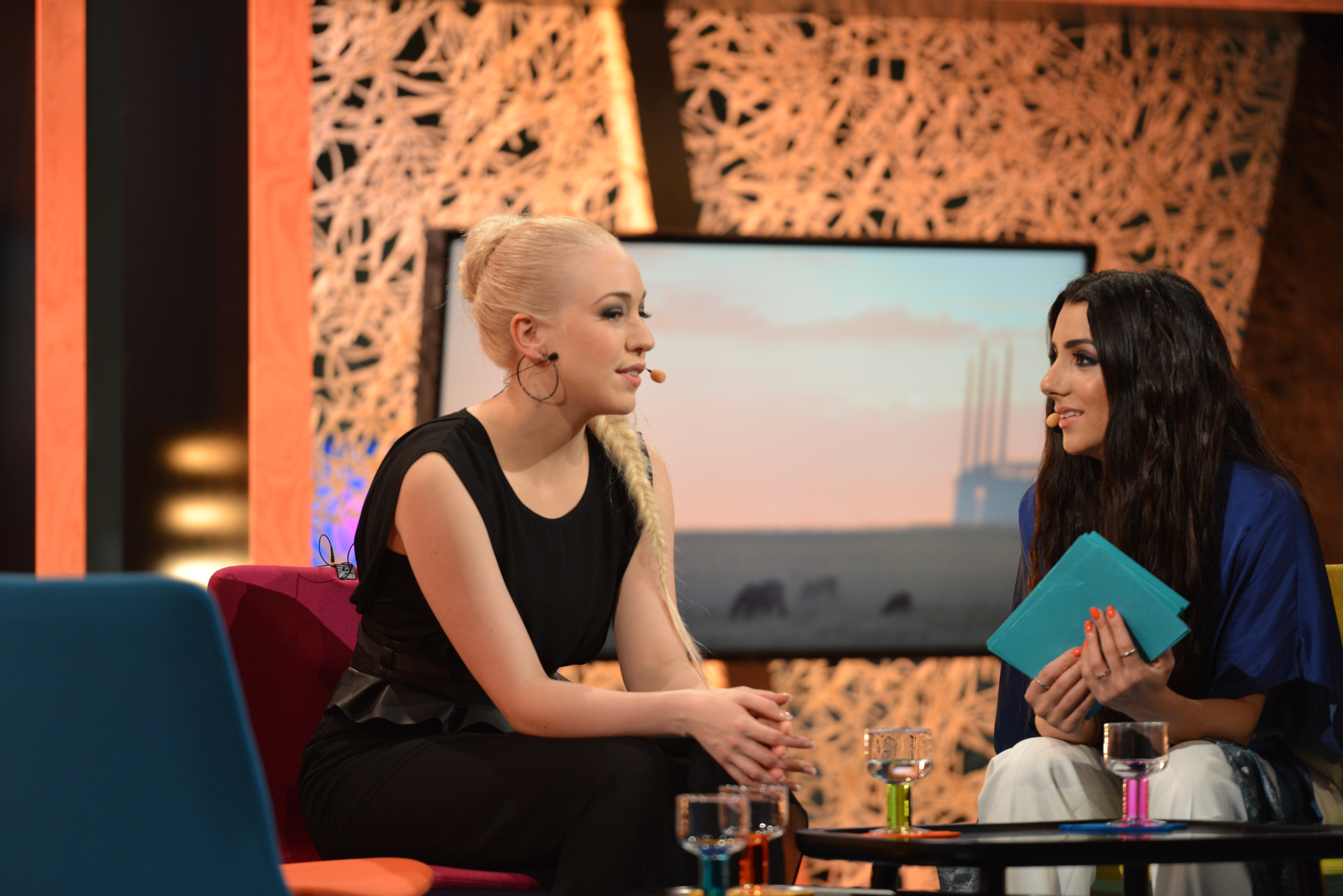 Margaret Berger is interviewed by Gina Dirawi in the Swedish TV-show 'Studio Eurovision 2013.